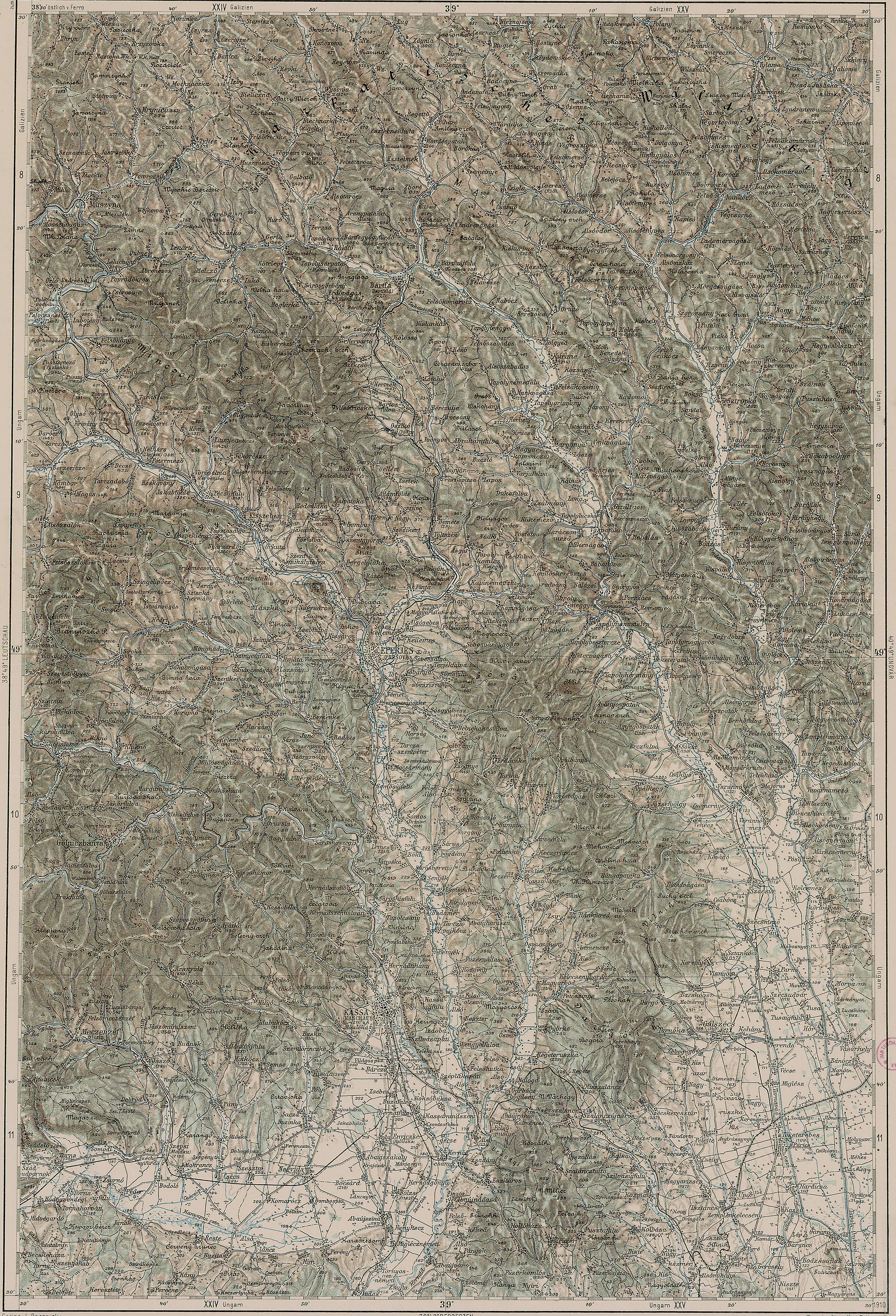 3rd Military Mapping Survey of Austria-Hungary - Kassa